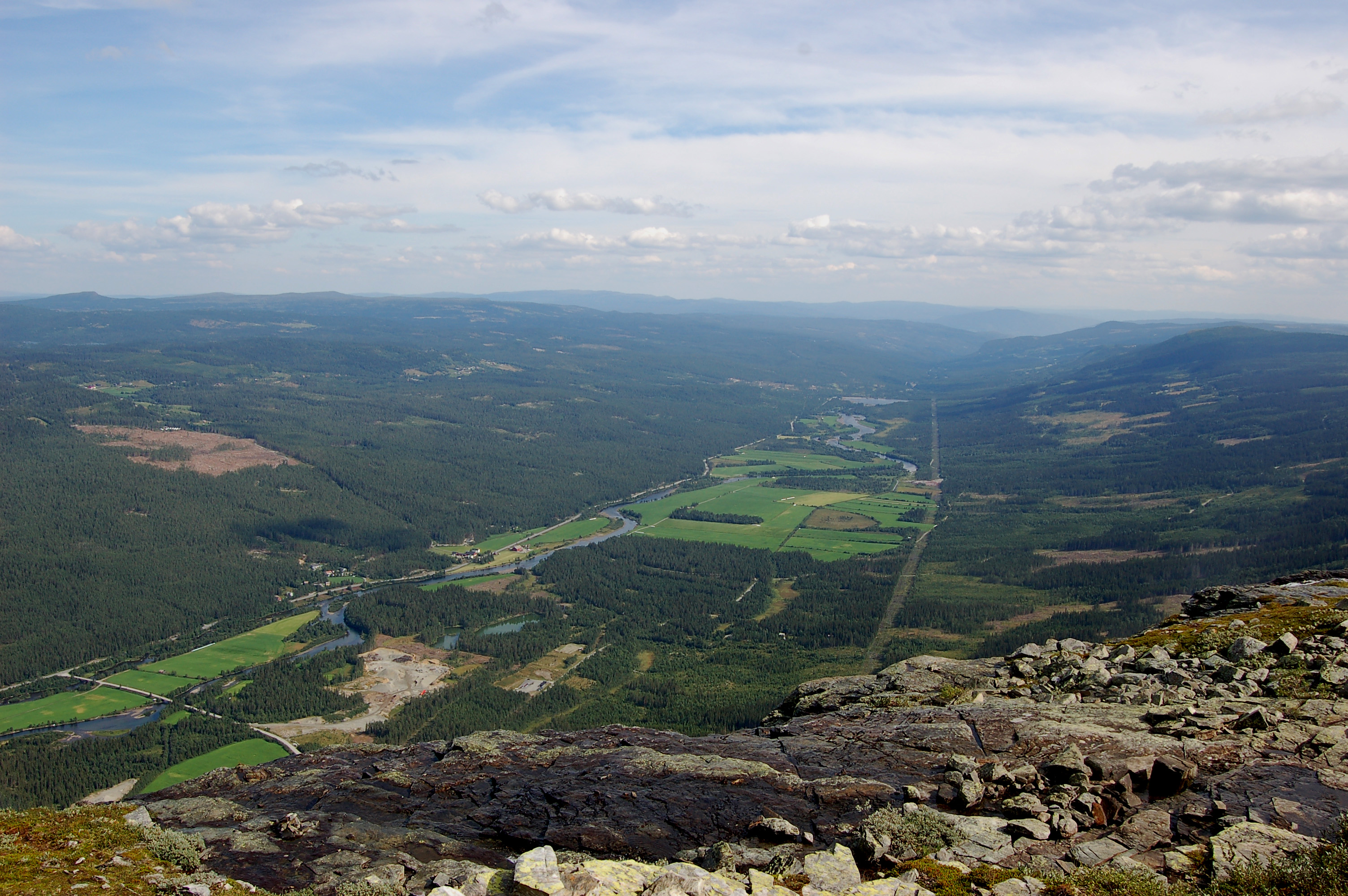 View from the top of Hydnefossen in Hemsedal, Norway.